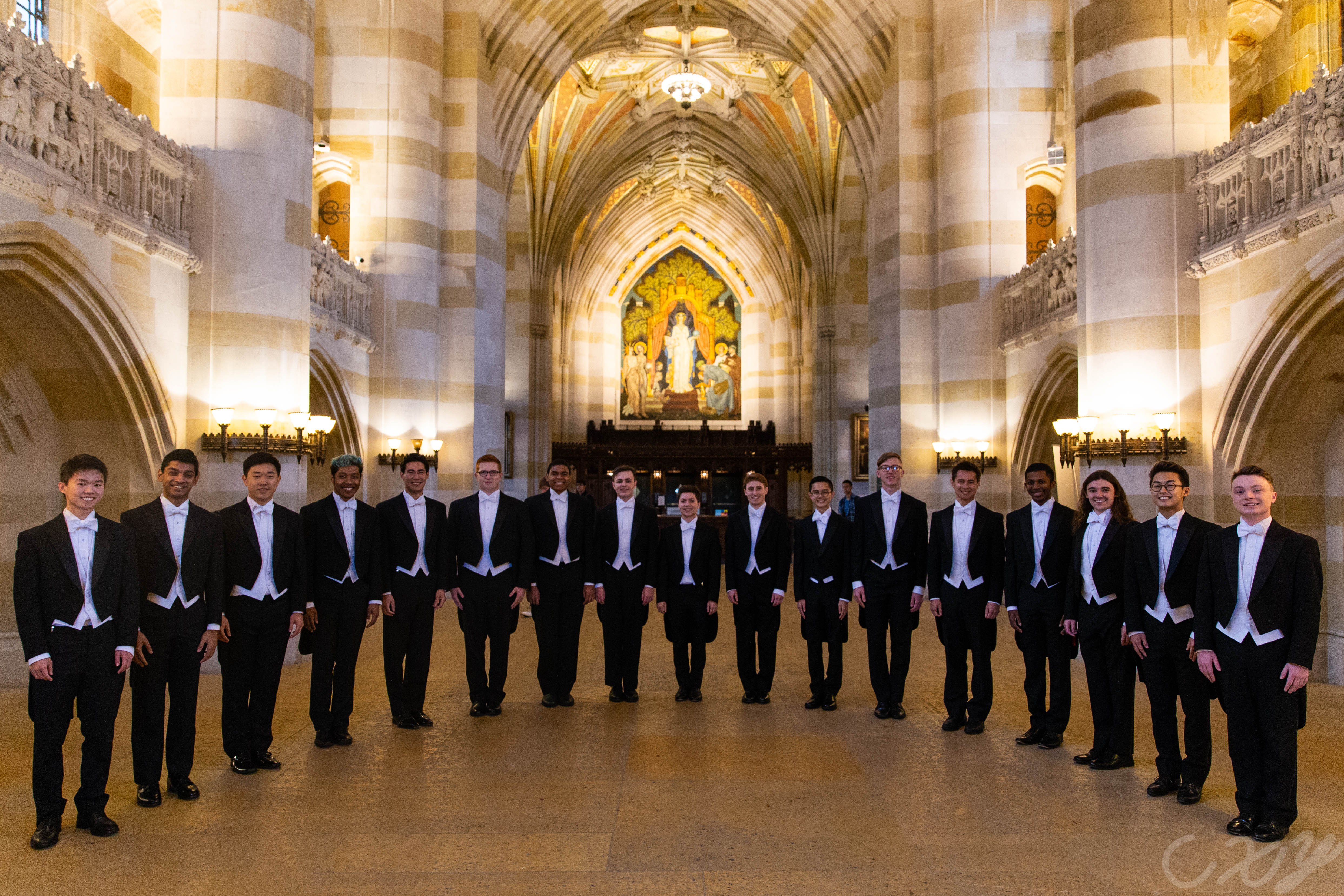 A photo of the 2018-2019 The Yale Alley Cats, taken in Sterling Memorial Library at Yale University.